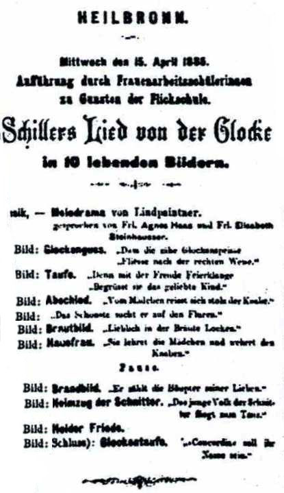 picture